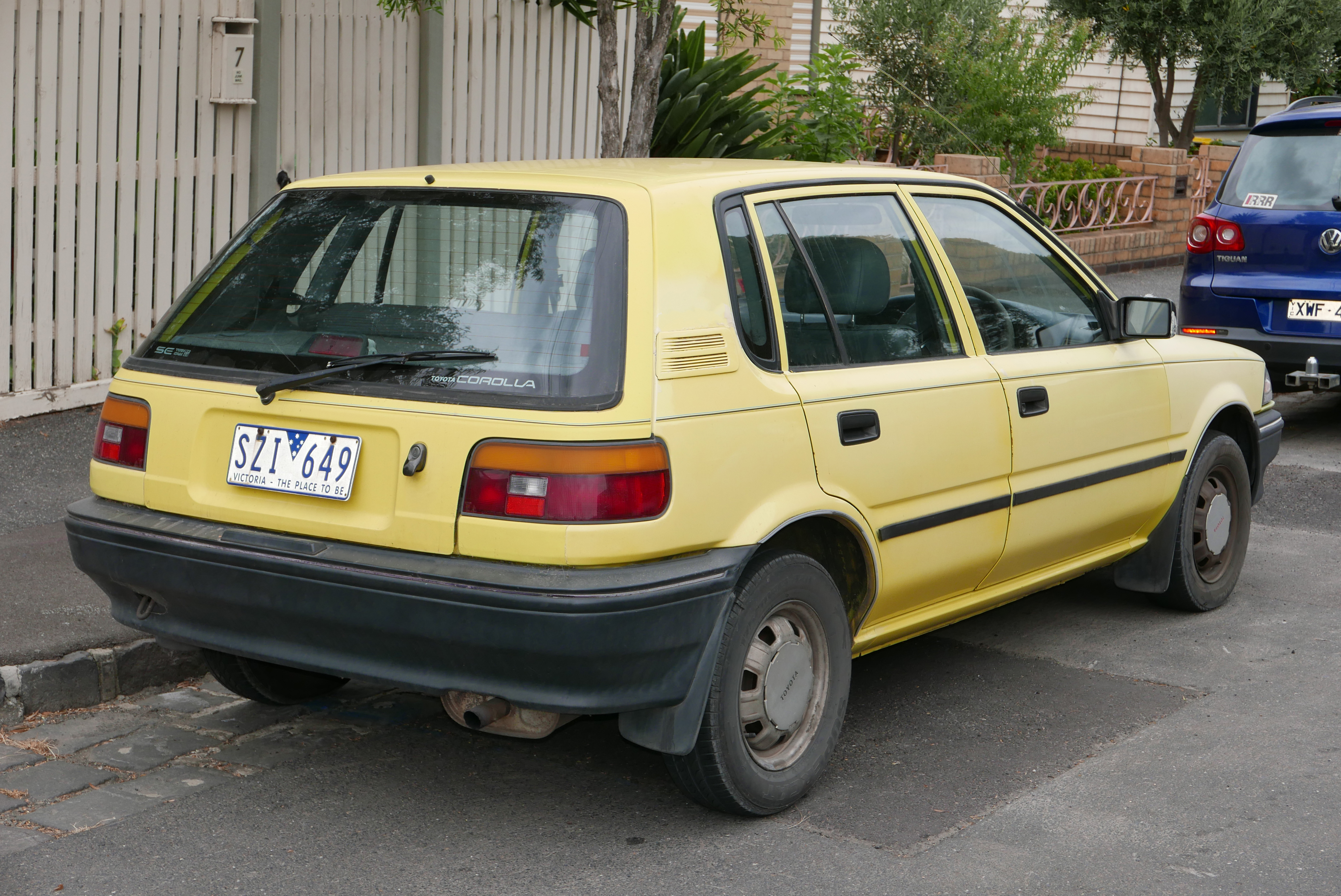 1989 Toyota Corolla (AE92) SE 5-door hatchback. Photographed in Brunswick, Victoria, Australia. Vehicle registration enquiry results Jurisdiction Victoria Registration SZI649 Chassis code 6T154AE9209505139 Engine code 4A9076975 Compliance date 1989-09 Year of manufacture 1989